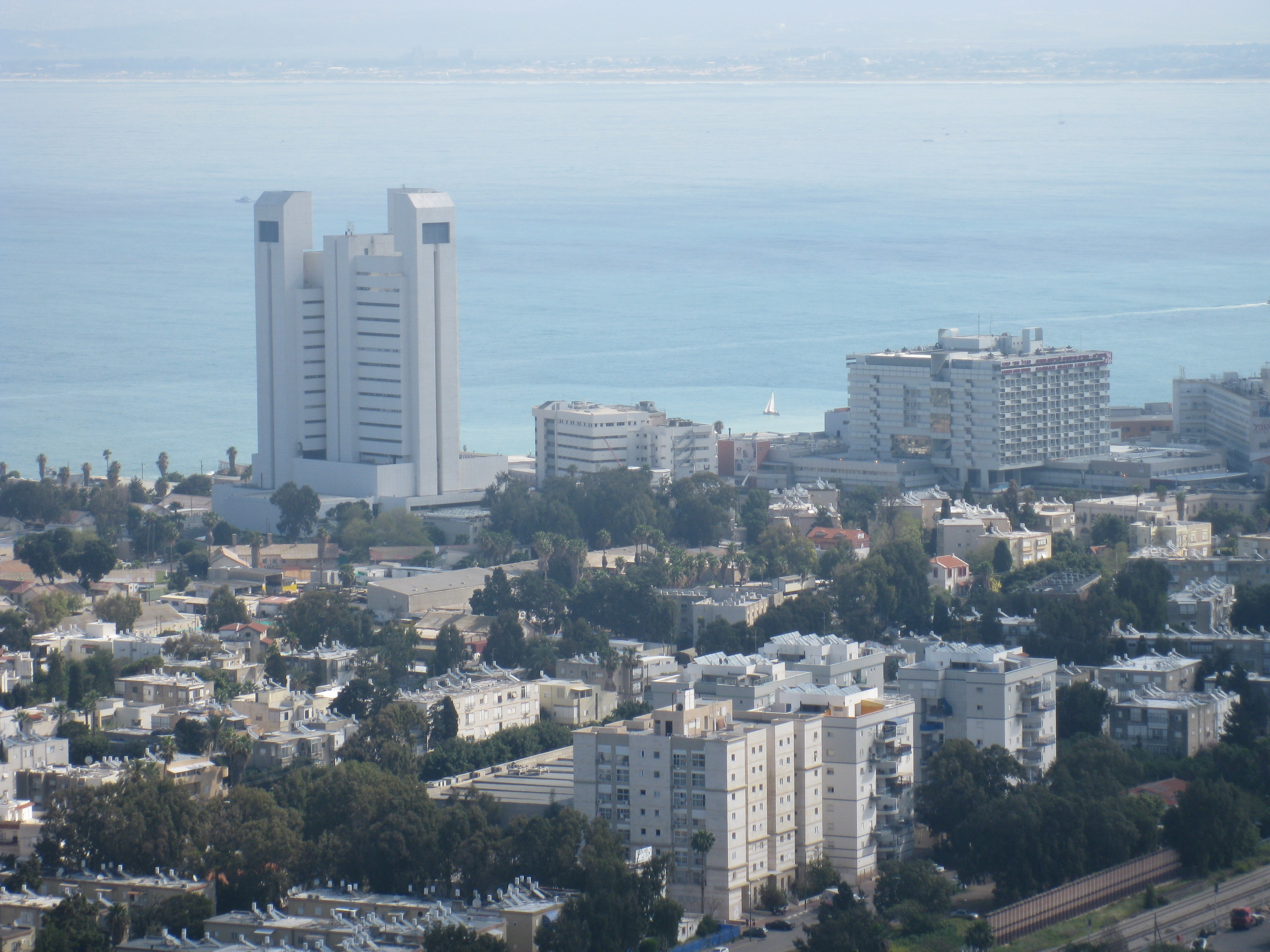 Views from the Stella Maris Observatory